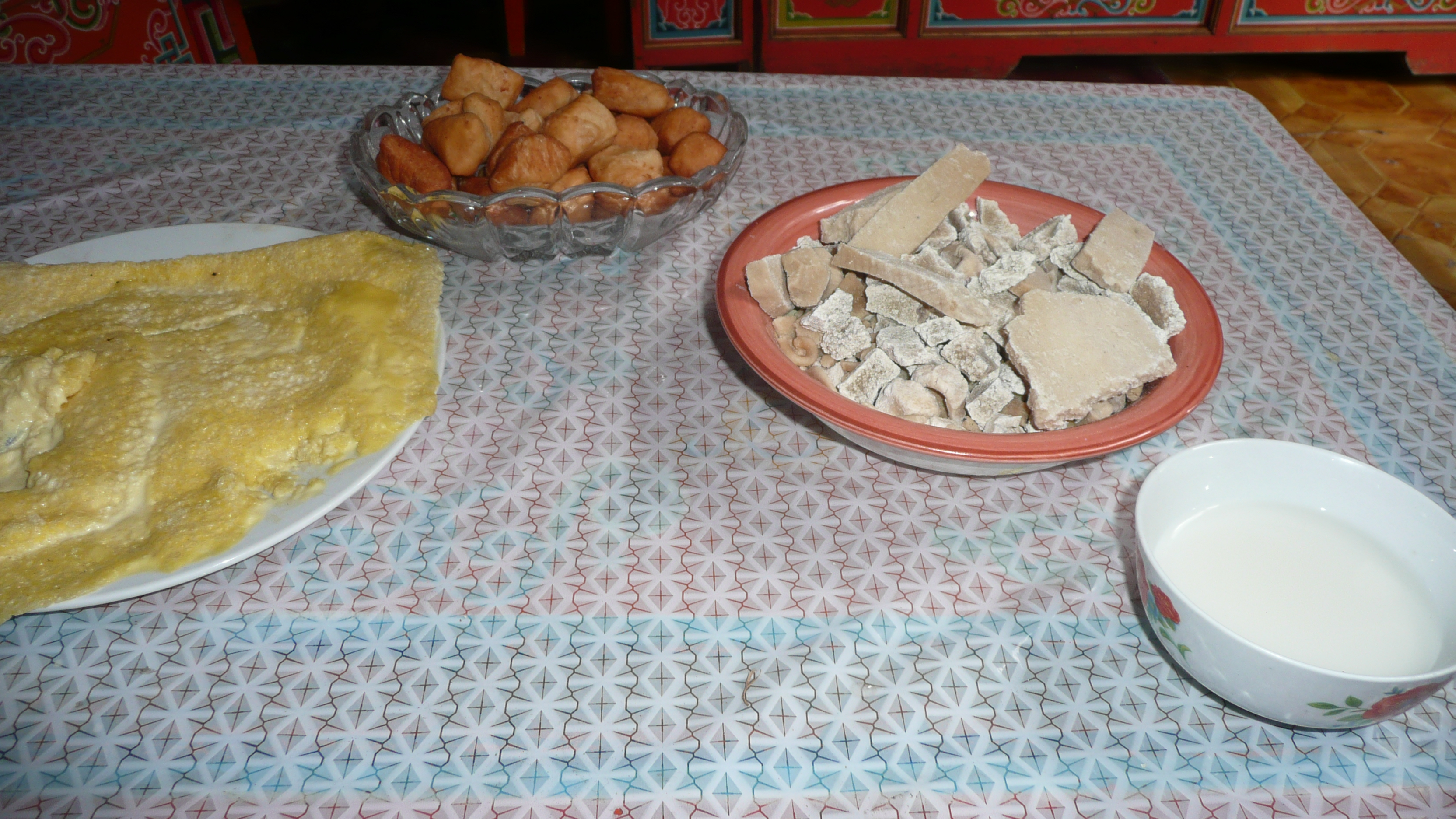 Cuisine of Mongolia: Öröm, Boortsog, Aaruul, Airag